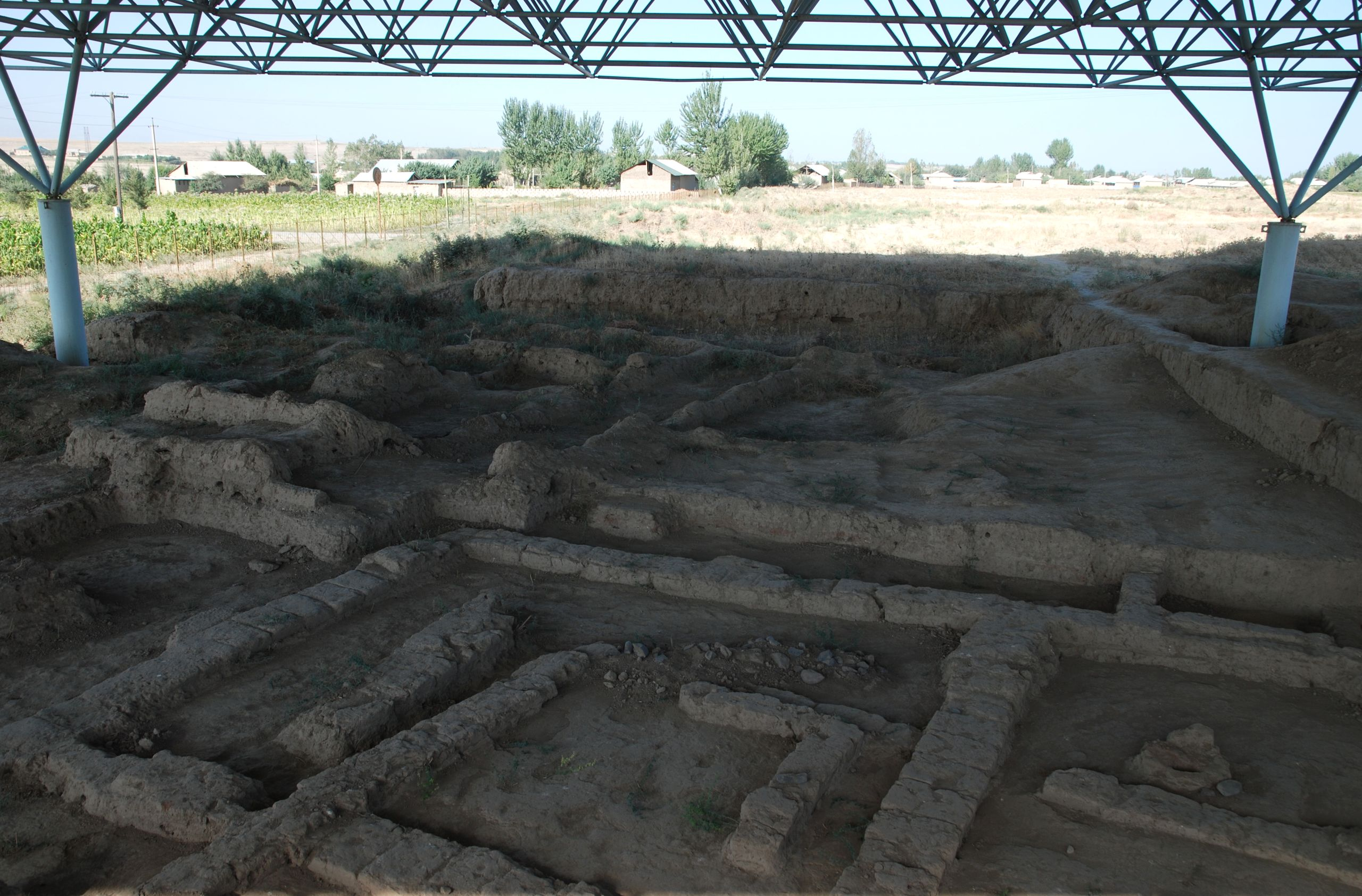 Sarazm, Sughd province, area IX